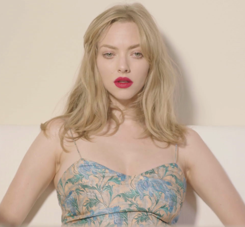 Amanda Seyfried in a photoshoot for Vogue